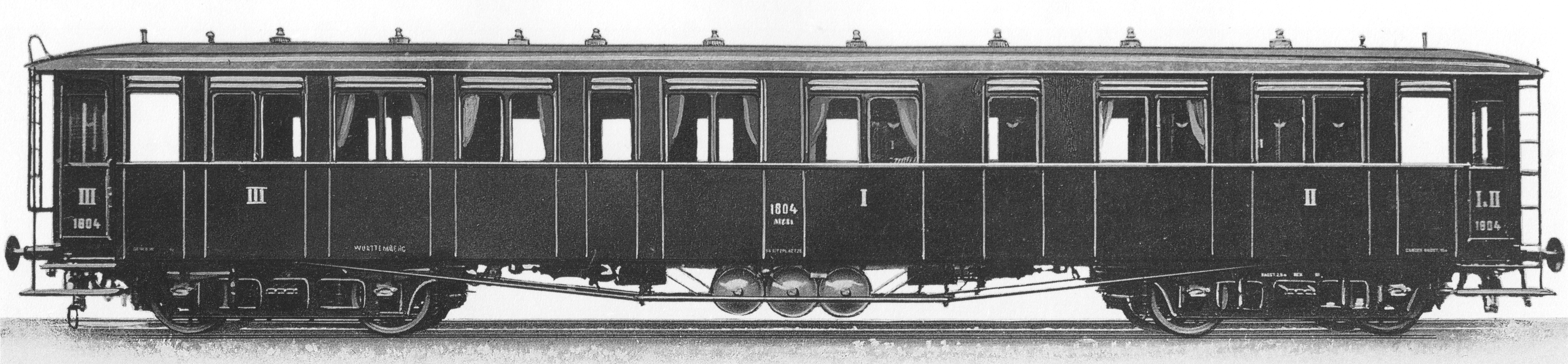 Wuerttembergian type ABCCü rail coach.